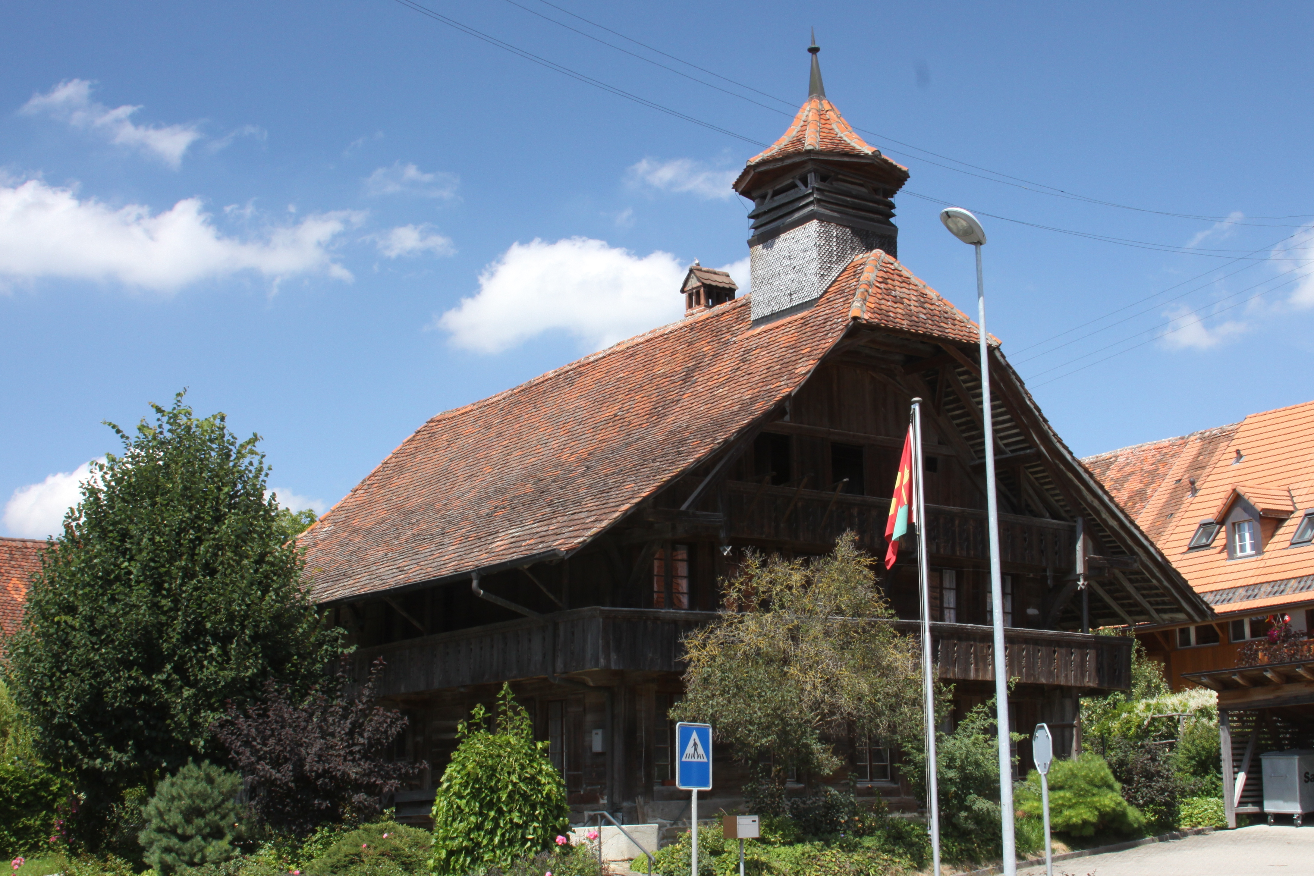 Old School House, Hauptstrasse 81, Salvenach